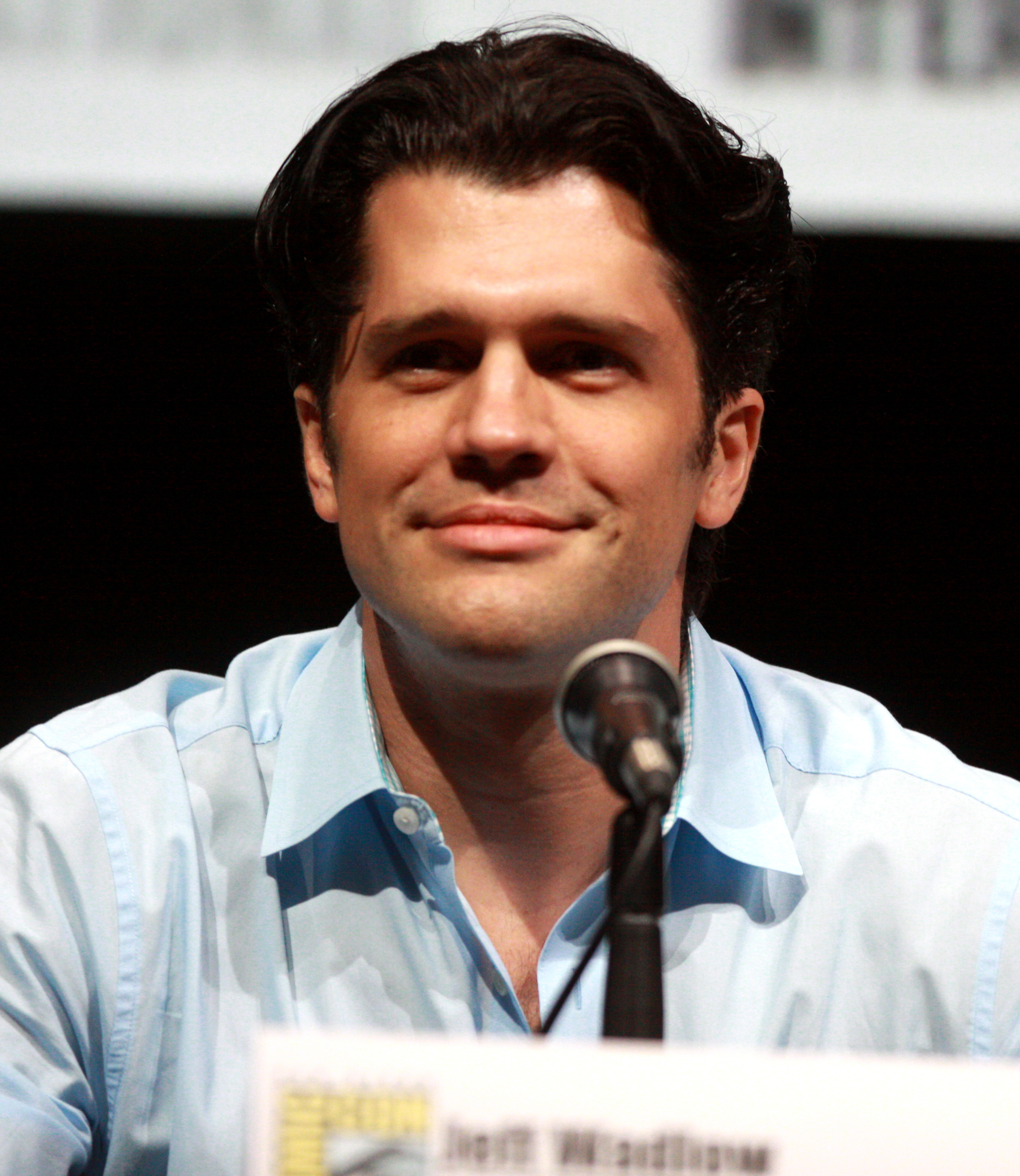 Jeff Wadlow at the 2013 San Diego Comic Con International in San Diego, California.